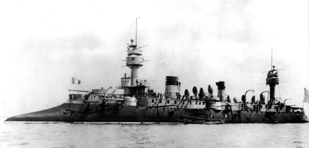 French armoured cruiser Dupuy de Lôme.